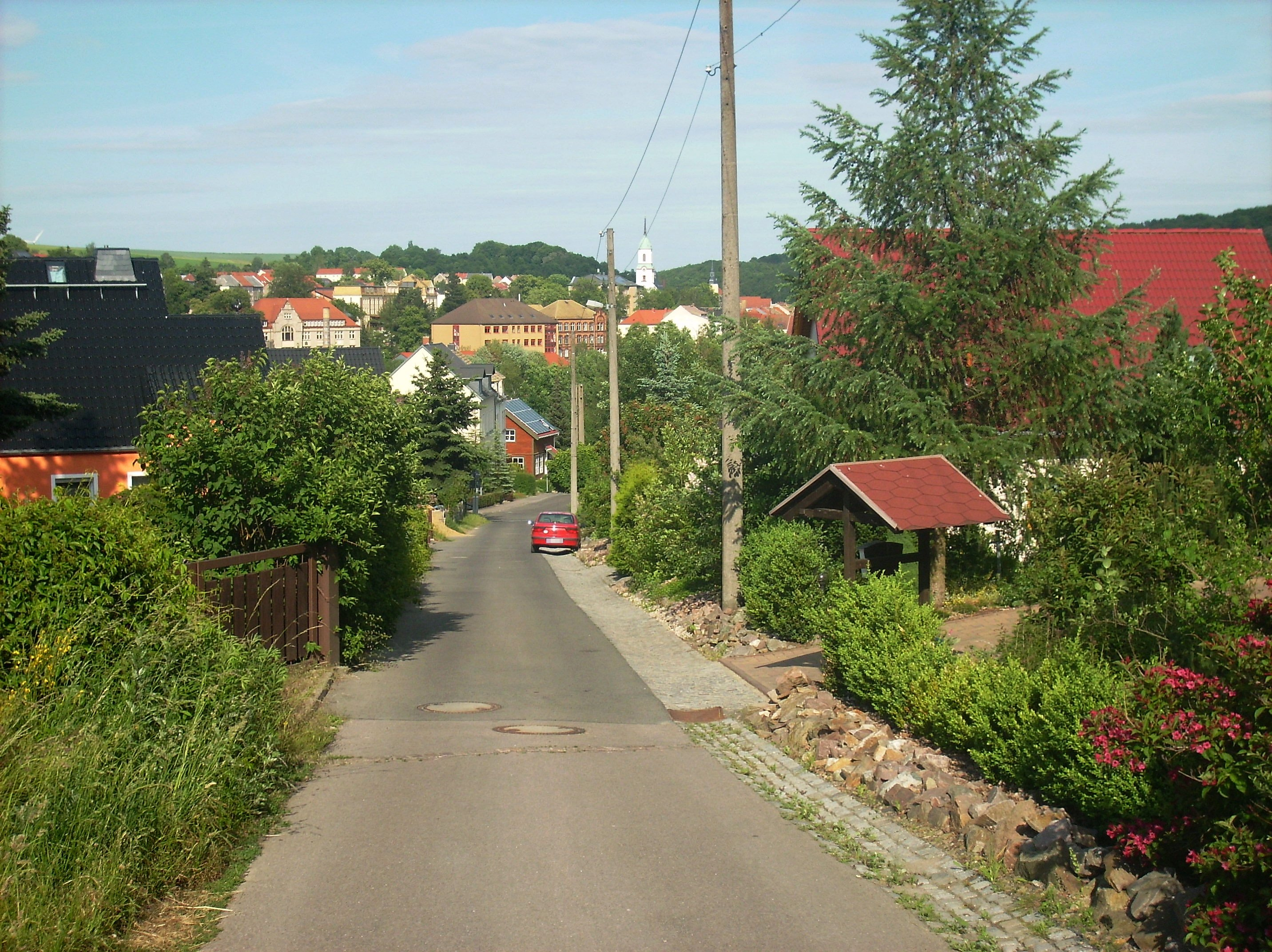 View of Rosswein (Mittelsachsen district, Saxony) from Goldbornstrasse